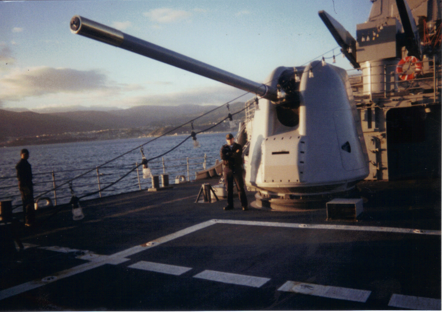 Rigging the "up and overs" (lights) on the fantail of the USS Vincennes (CG-49).